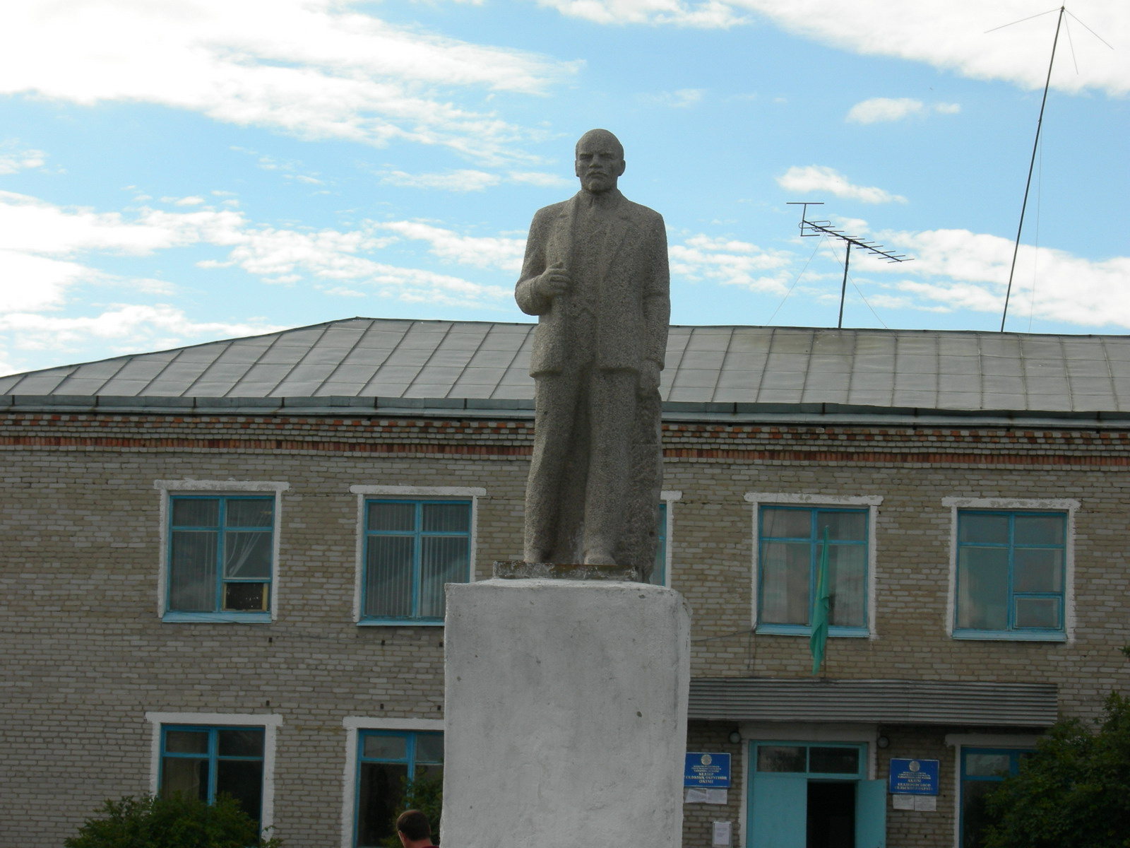 Village kellerovka statue of Lenin